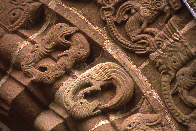 A scan from a 35mm transparency which I took at the exquisite Romanesque church of Saint Mary and Saint David in Kilpeck, Herefordshire, England in 1989. It shows a detail of the carvings on the arch above the south door, depicting five linked serpents swallowing each other's tails, a dragon swallowing its own tail, and part of the linked outer border of lion heads above it. The motif inside the ring is a curious "lion-bird", apparently a damaged winged lion's body repaired with a bird's head taken from elsewhere. Carved during the mid 12th century AD (late Norman period) by an unknown sculptor of the "Herfordshire School".